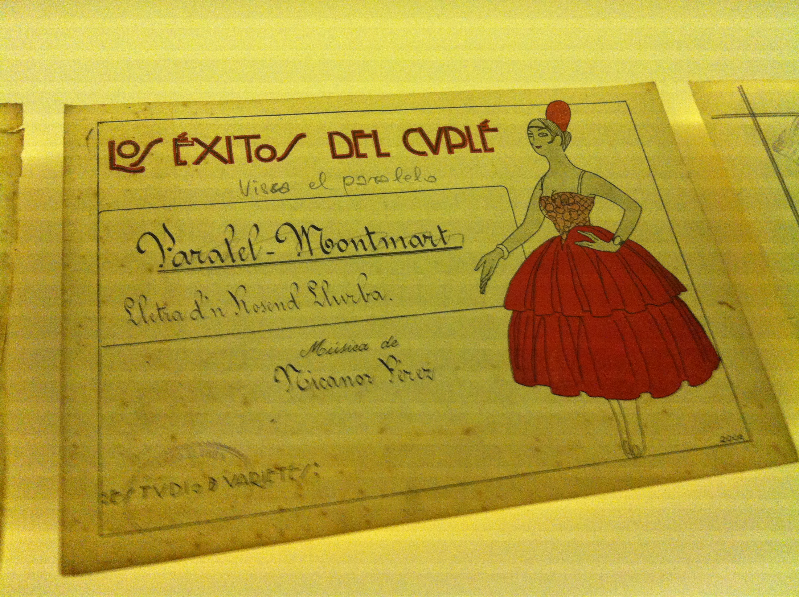 Pictures of an exhibit about The Paral·lel avenue in Barcelona that took place in CCCB cultural center between october 2012 and feb 2013. El Paral·lel emerges from the project to extend the city designed by Ildefons Cerdà. From its birth, a series of contradictory urban planning regulations facilitated the appearance of ephemeral buildings and the conversion of this street into a dense area of leisure and entertainment. The result was a leisure district for the masses, perfectly comparable to those existing in other major European urban agglomerations at that time, but that immediately became a genuine cultural expression of the social and political conflict that characterised the Barcelona of the early 20th century. El Paral·lel generated shows with perfectly differentiated contents and formats, made up by the audience and the artists. This exhibition will explain, therefore, why a new entertainment area emerged in the city, leading the weight of the theatrical axis to move from the Plaça Catalunya-Passeig de Gràcia area to the Nou de la Rambla-Paral·lel area.